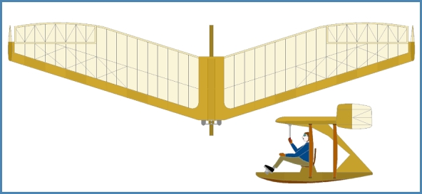 Lippisch/RRG Storch 9 Flying wing